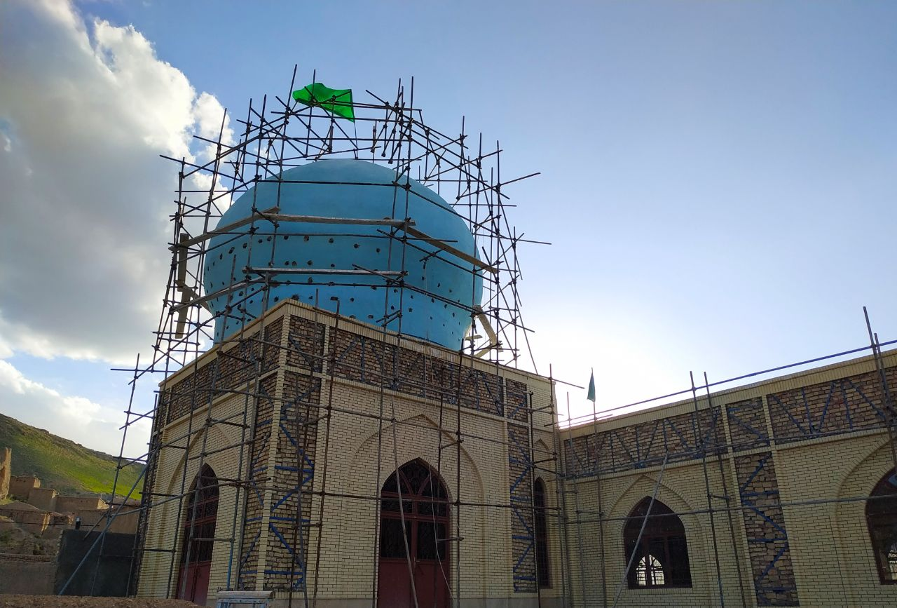 Shrine of Imamzadeh Seyyed Morteza is under reconstruction